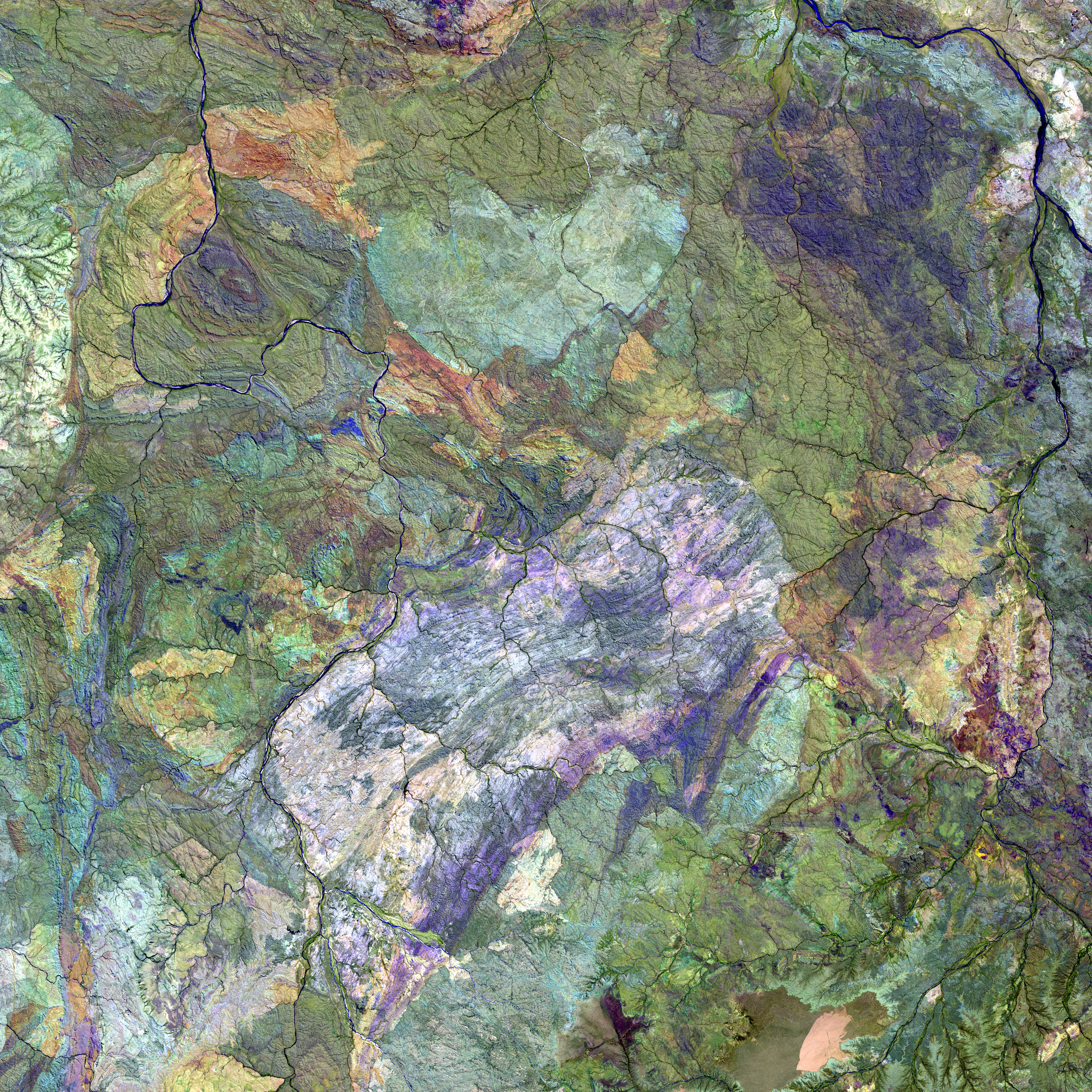 Great Sandy Desert, Australia. – The western region of Australia’s Great Sandy Desert is in an area almost devoid of sand, but characterized by complex geology. This is a false-color composite image made using shortwave-infrared, infrared, and red wavelengths.